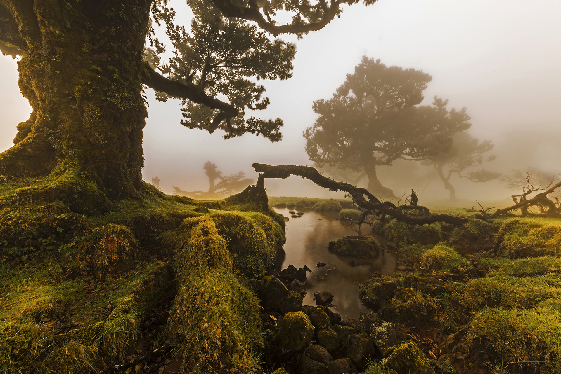 View of the Laurisilva (Laurel Forest), Island of Madeira, Portugal.